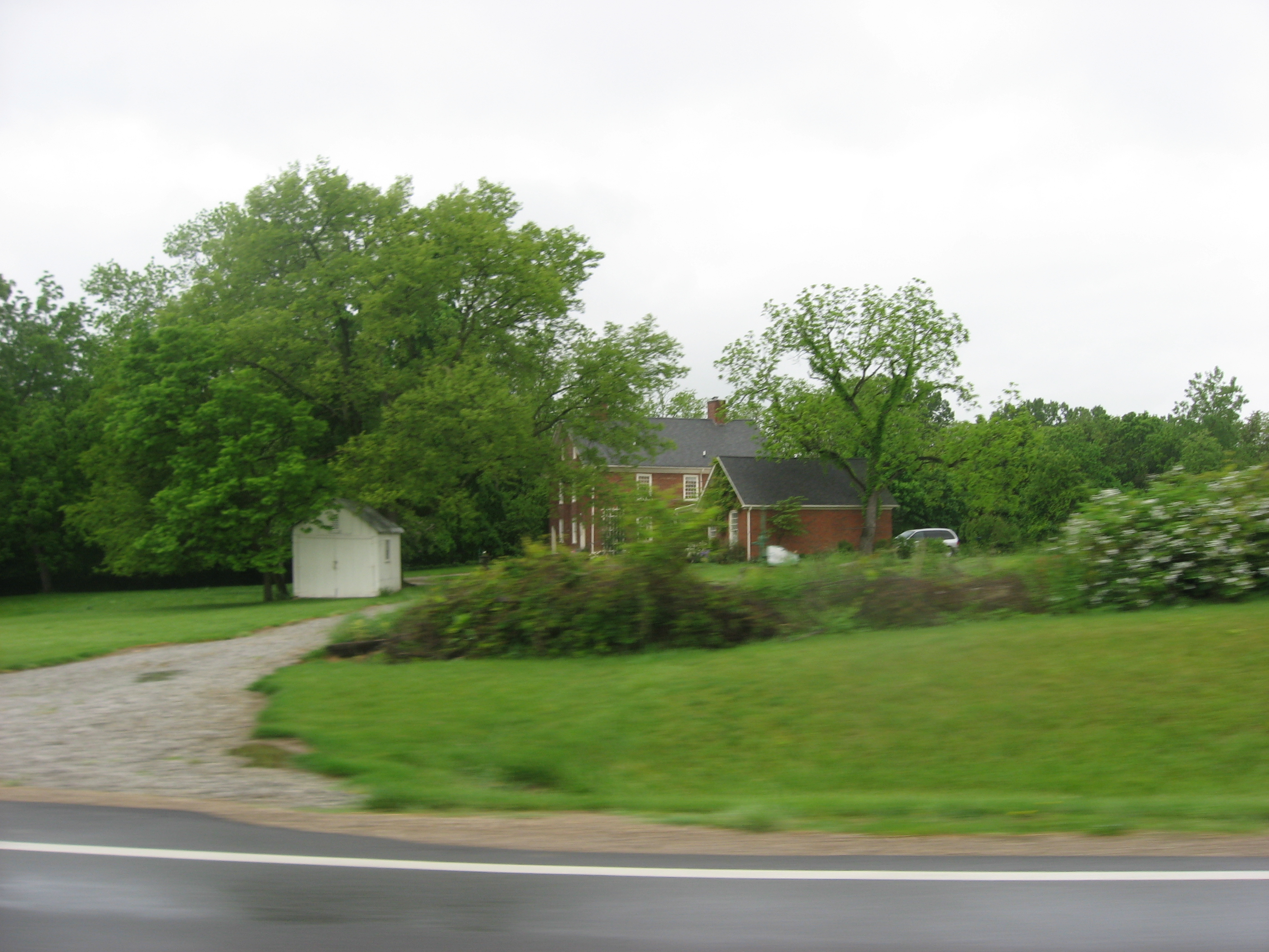 Roadside view of the Marcus Curtiss Inn, located at 3860 Sunbury Road south of Galena in Genoa Township, Delaware County, Ohio, United States. Built in 1822 and formerly used as a post office, it is listed on the National Register of Historic Places.